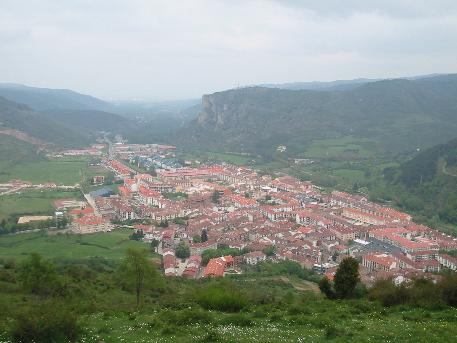 View of Ezcaray, La Rioja (Spain) from the hermitage of Santa Bárbara